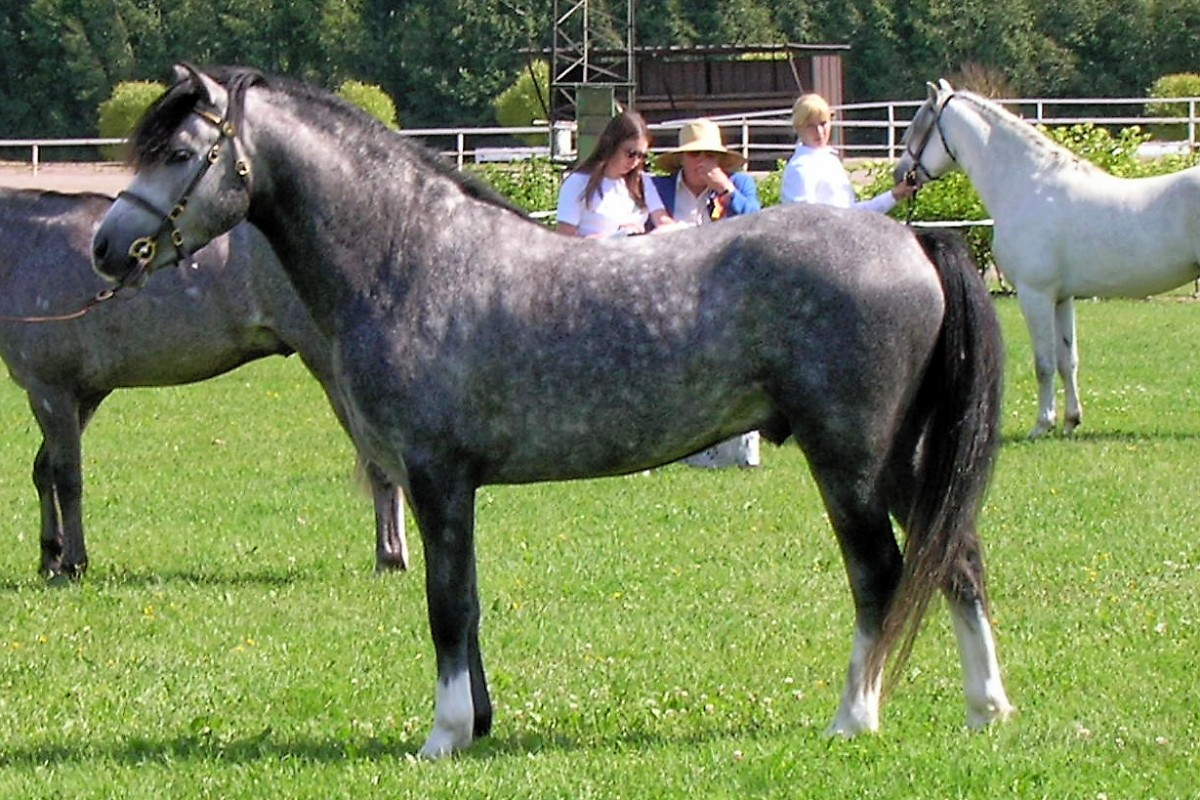 3 years old Welsh B "Shangri-La" in pony show in Finland. He was the best young pony of his breed.